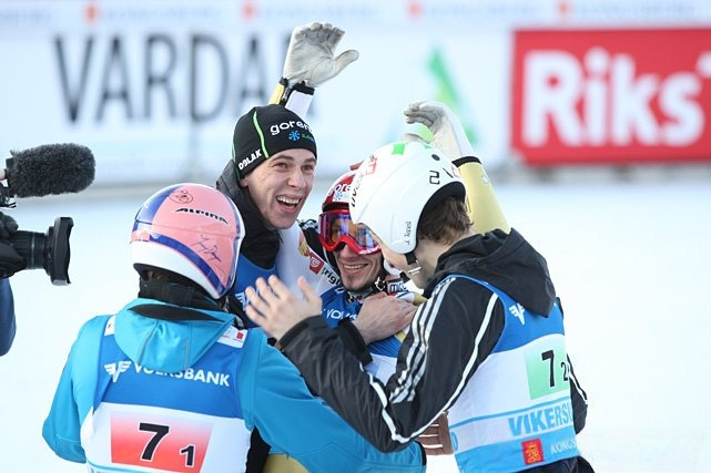 Team Slovenia during team competition of FIS Ski-Flying World Championships 2012